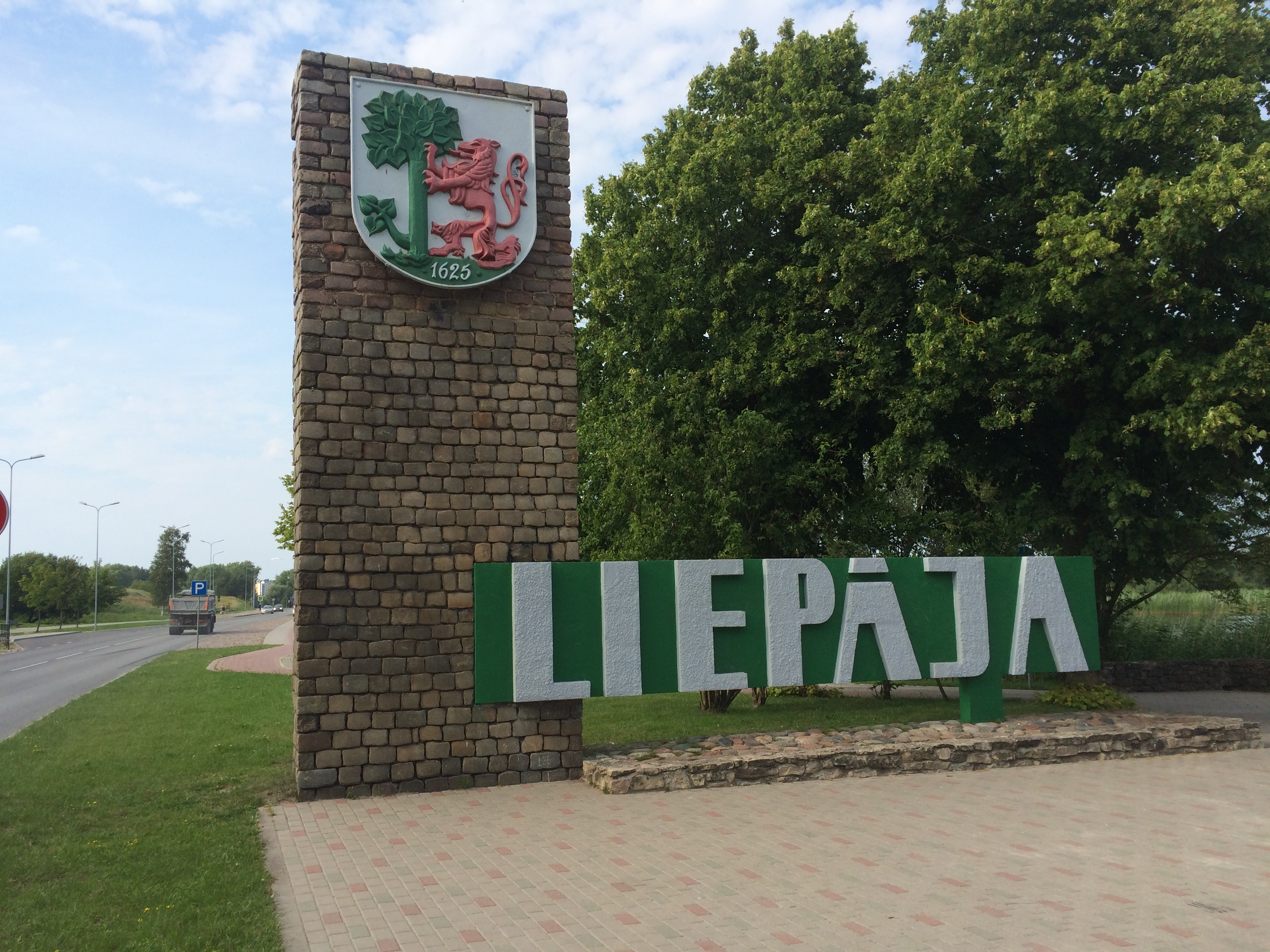 City border marker.